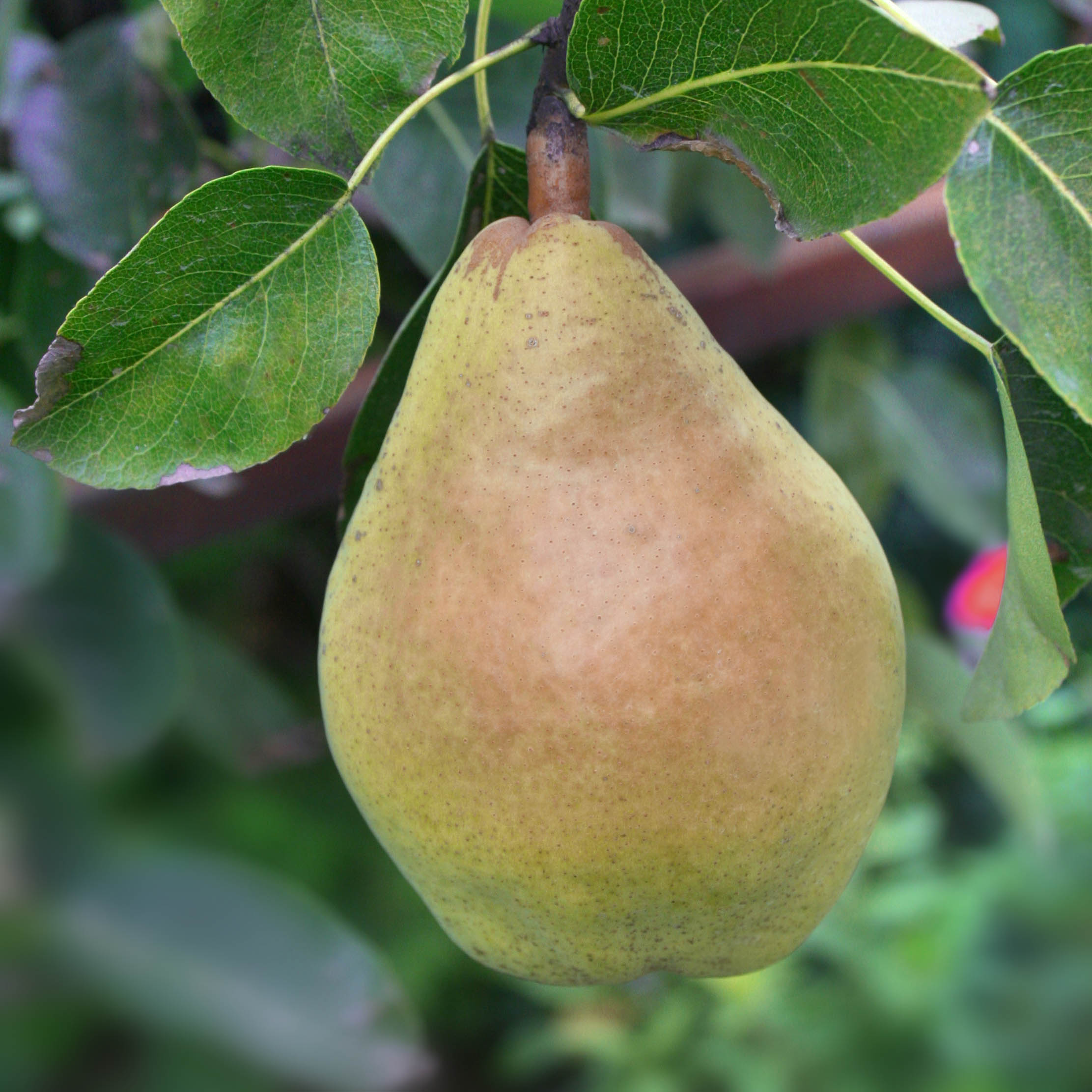 Pear